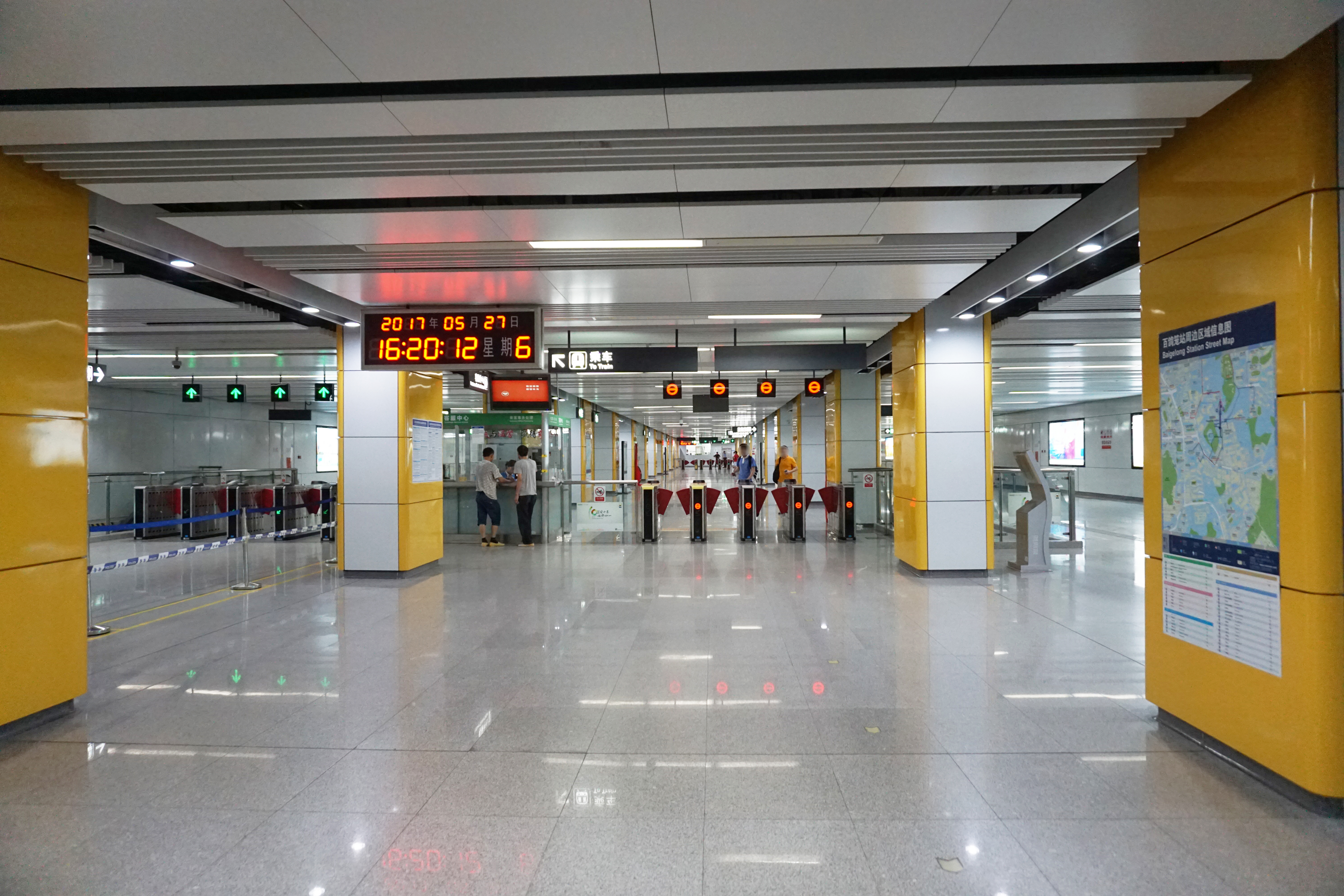 Baigelong Station in Longgang District, Shenzhen.